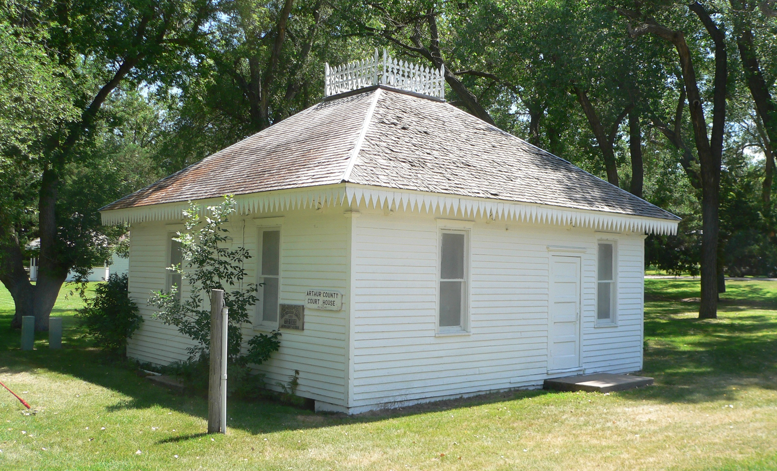 First Arthur County courthouse in Arthur, Nebraska; seen from the northwest. The courthouse was built in 1914. The First Arthur County Courthouse and Jail complex is listed in the National Register of Historic Places.